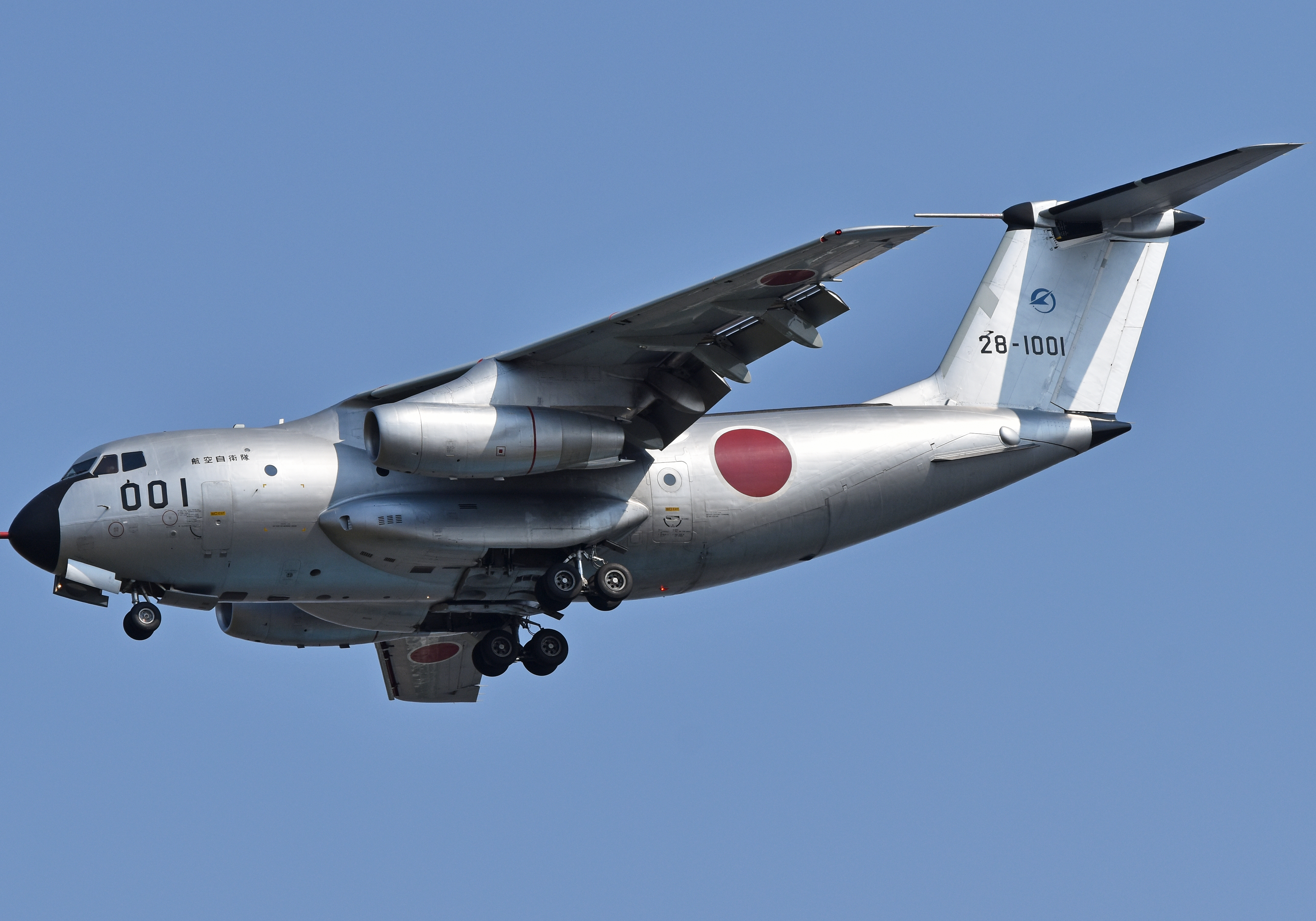 c/n 8001 This is the first prototype C-1 and first flew on 12th November 1970. Still in use as a test aircraft, it is operated by the Air Development & Test Wing (AD&TW), Japanese Air Self Defence Force Gifu Air Base, Kakamigahara City, Gifu Prefecture, Japan 15th March 2019